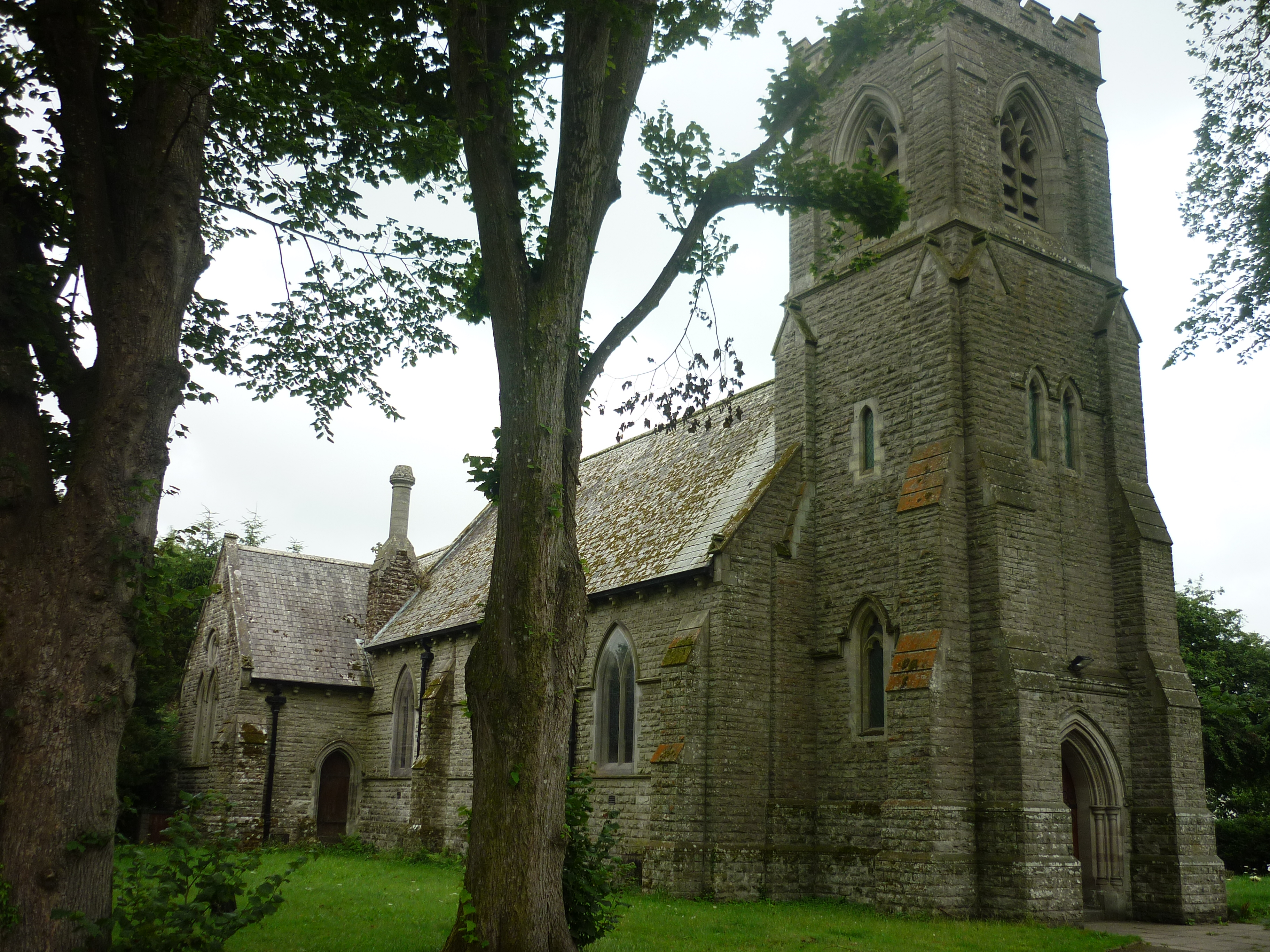 St David's parish church, Miskin, Pontyclun, South Wales